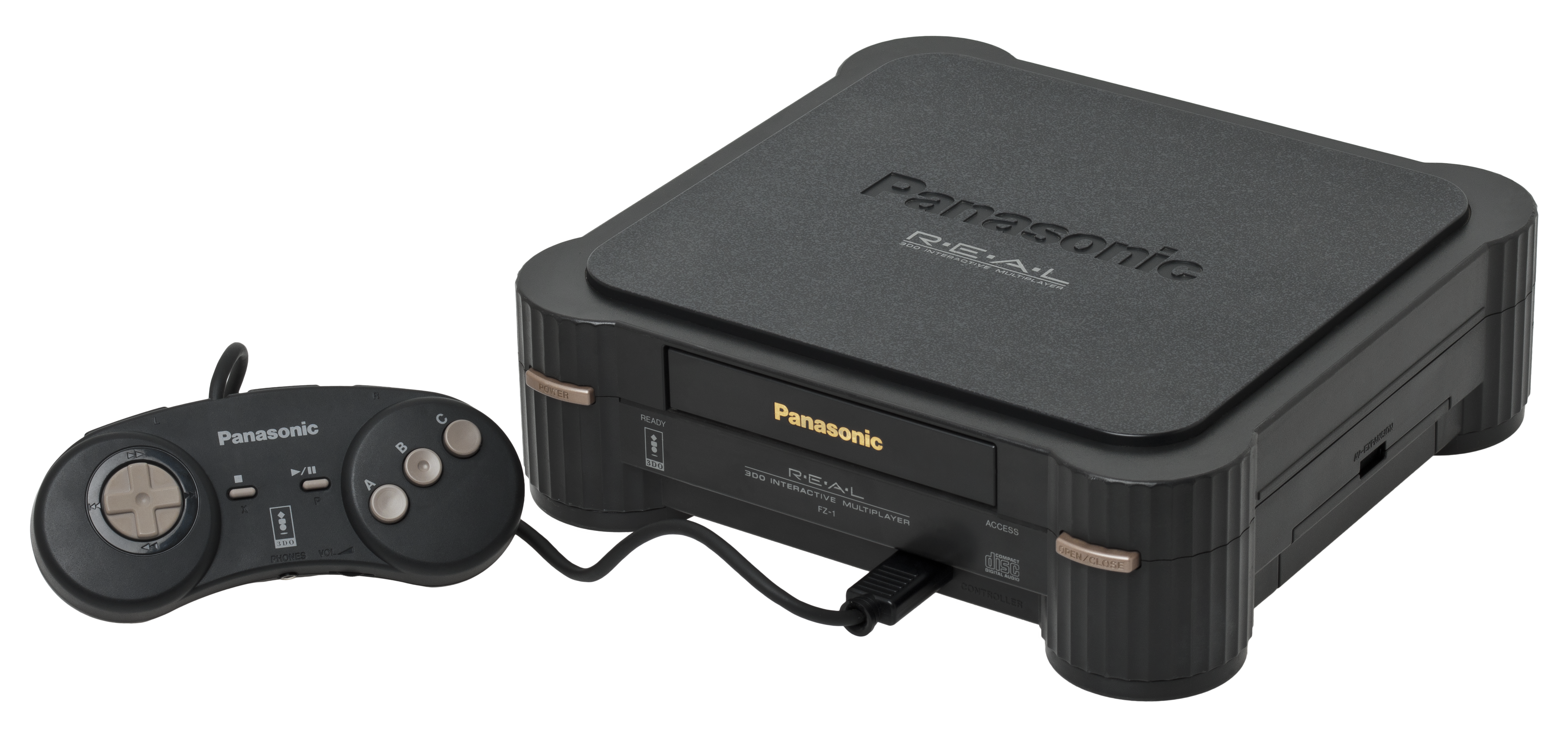 The Panasonic 3DO FZ-1, a video game console released in 1993.